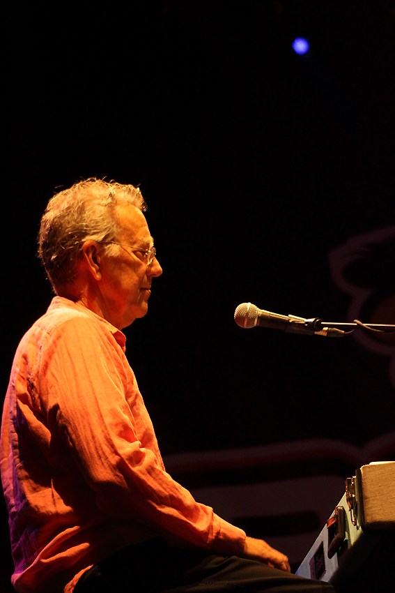 Ray Manzarek at the Bospop festival, Weert, The Netherlands, 2010-07-11